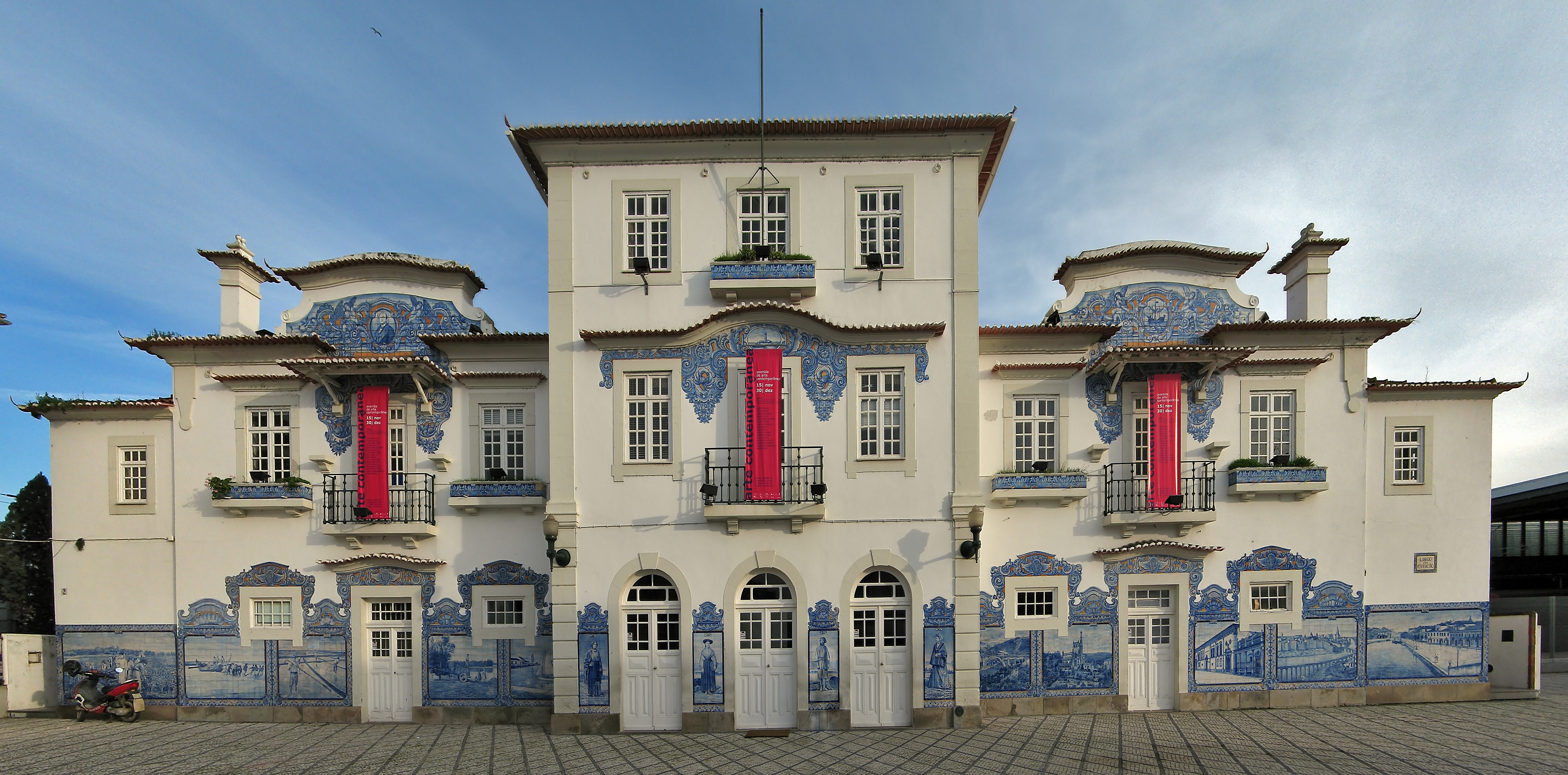 The train station of Aveiro